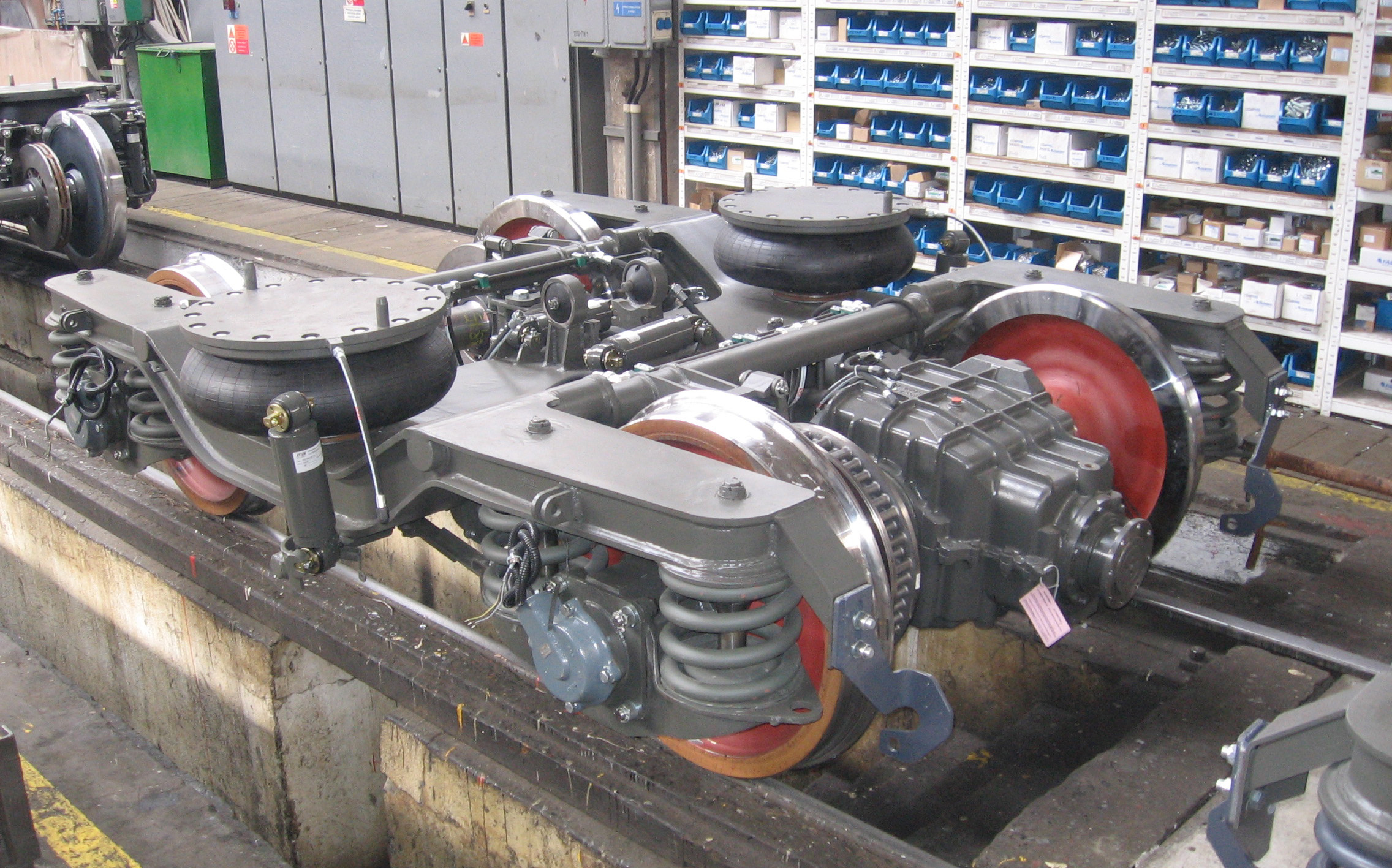 ČD Class 842 bogie - driving axle